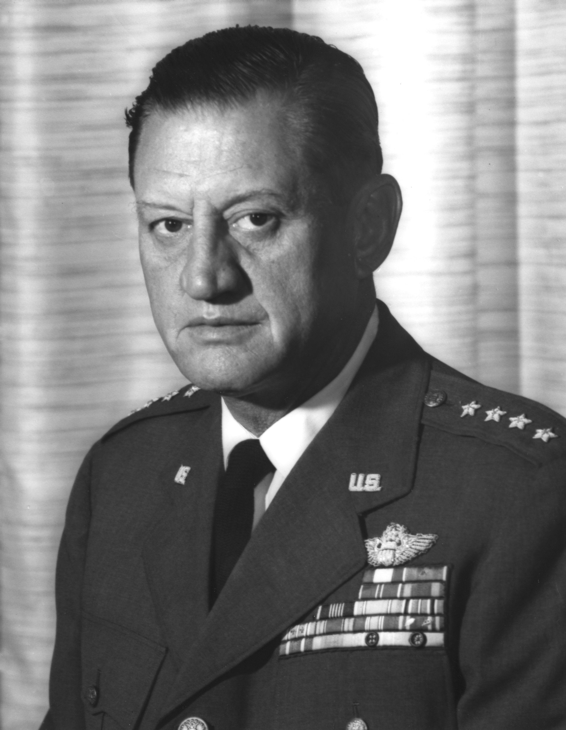 General Gabriel P. Disosway was commander of the U.S. Air Force Tactical Air Command. Retired 1968.